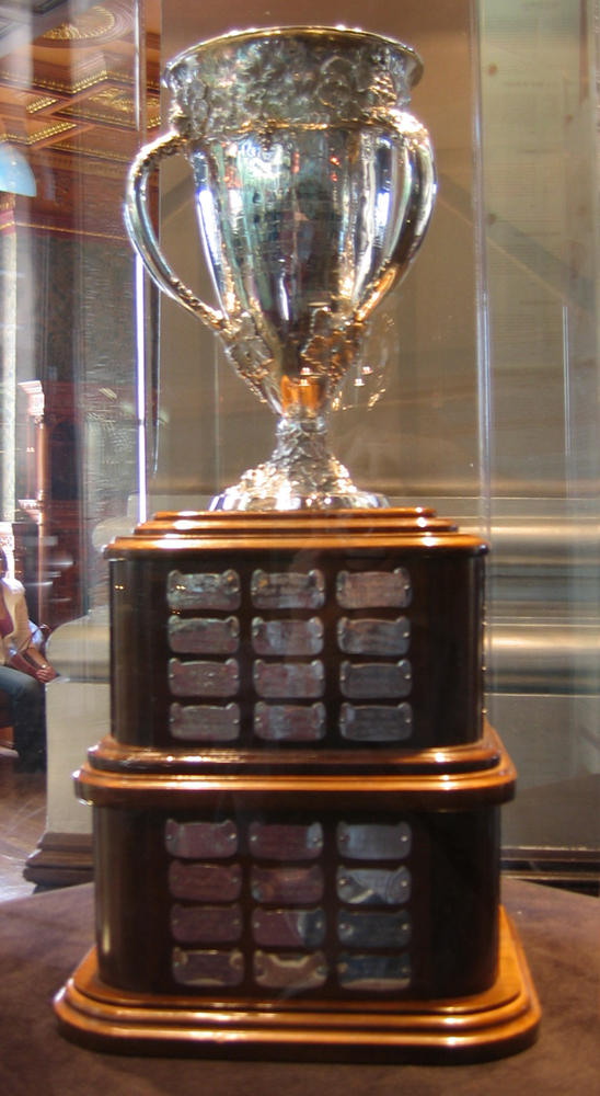 Calder Memorial Trophy on display at the Hockey Hall of Fame in Toronto. The trophy is awarded annually to the NHL's Rookie of the Year. Taken by Kmf164 on November 19, 2005.